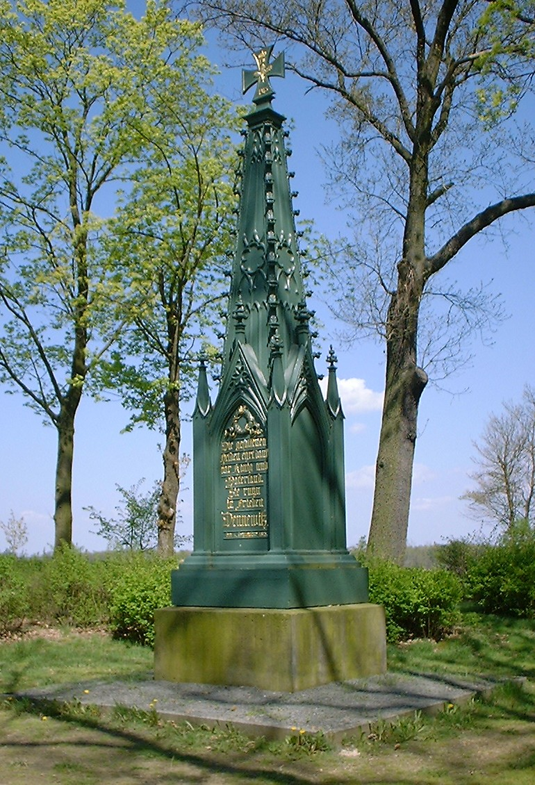 Memorial of the battle of Dennewitz, Brandenburg, Germany